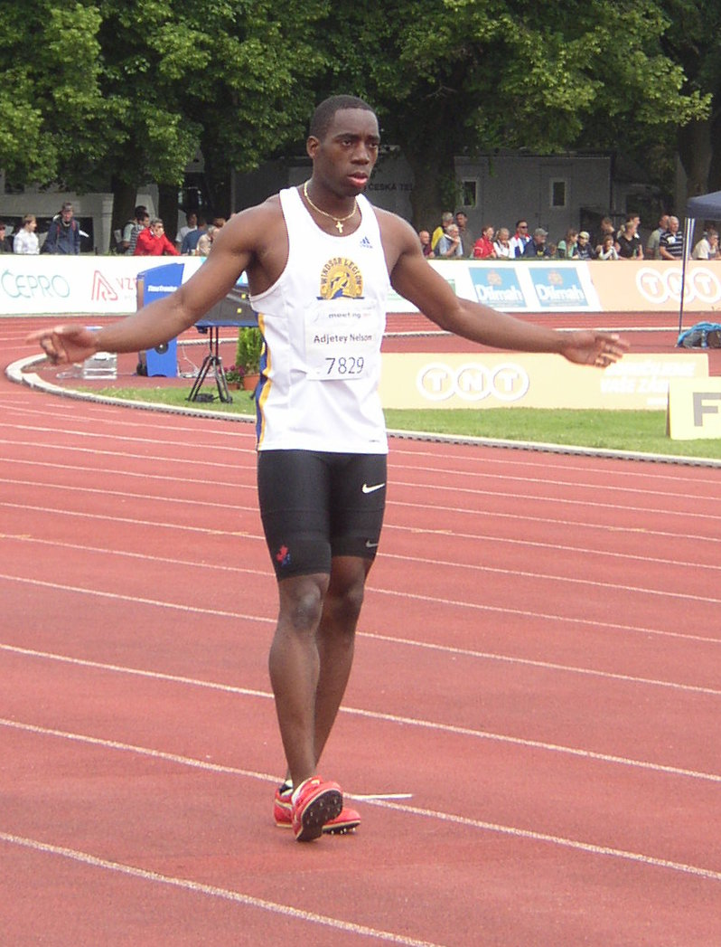 Athlete Jamie Adjetey-Nelson of Canada prepares for his attempt in long jump during men's decathlon at 4th edition of the TNT - Fortuna Meeting (IAAF World Combined Events Challenge Meeting, Sletiště Stadium, Kladno, Czech Republic, 15 June 2010, 13:27). Adjetey-Nelson improved his personal best in decathlon from 7829 to 8293 points during this event.